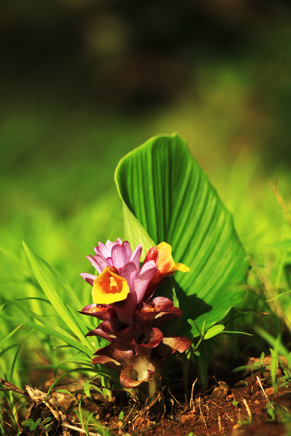 Wild Flowers of gaganbawda